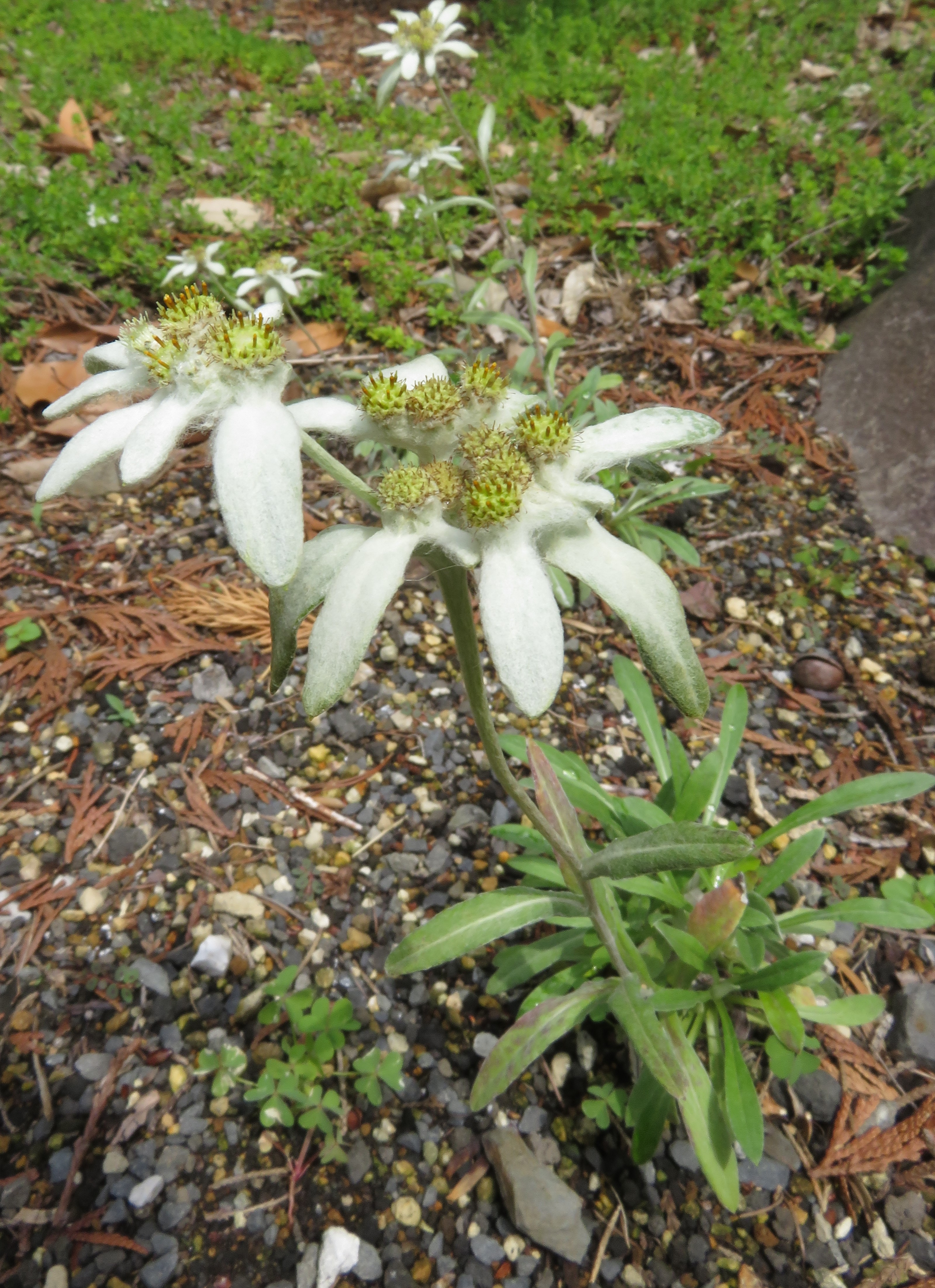 Leontopodium discolor, Tsukuba Botanical Garden, Ibaraki pref., Japan